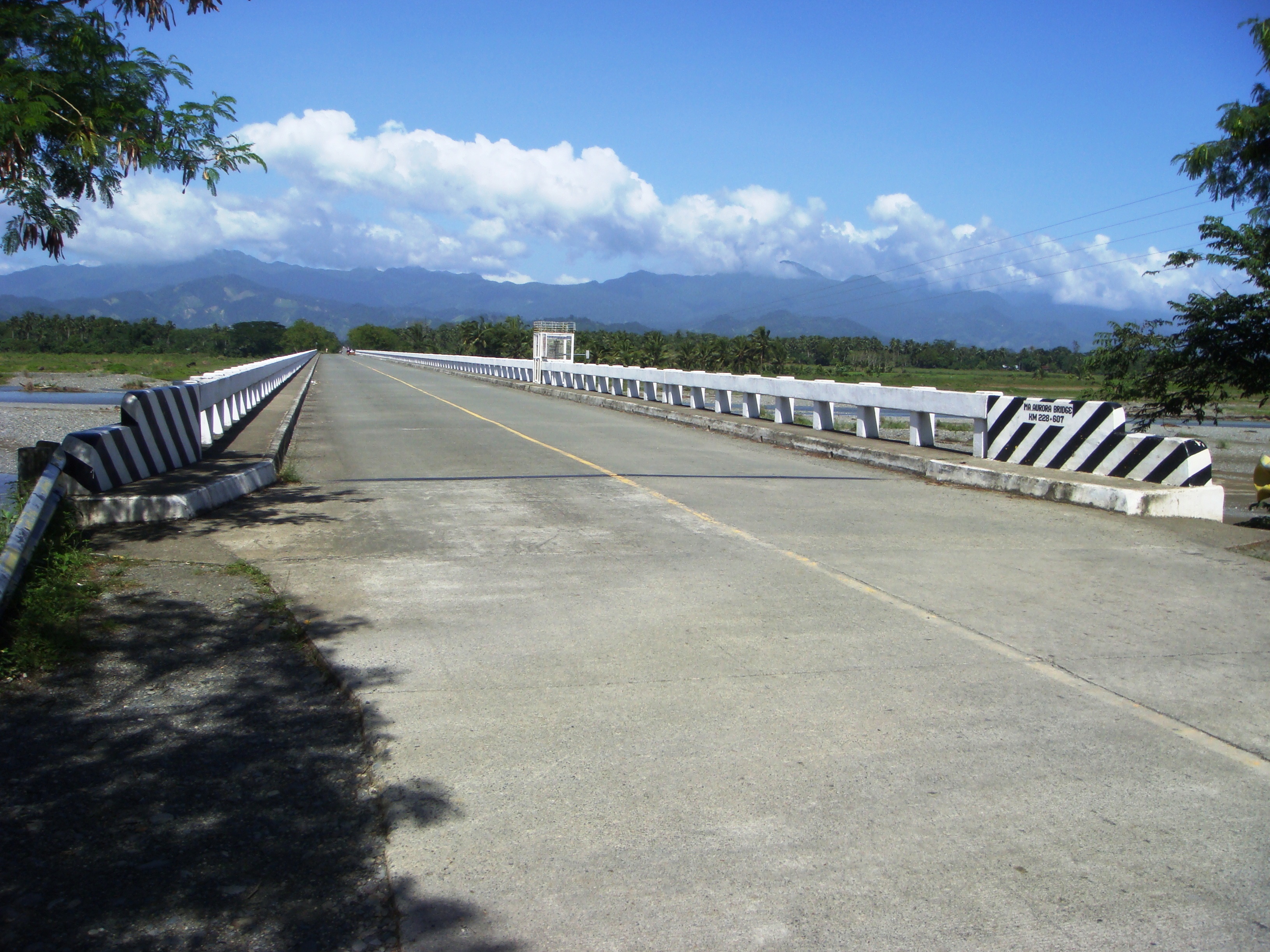 P317-million Maria Aurora, Aurora, 110-linear meter bridge links 2 isolated barangays Bazal and Malasin to the town proper[ atid=68:news-and-announcements&Itemid=238].